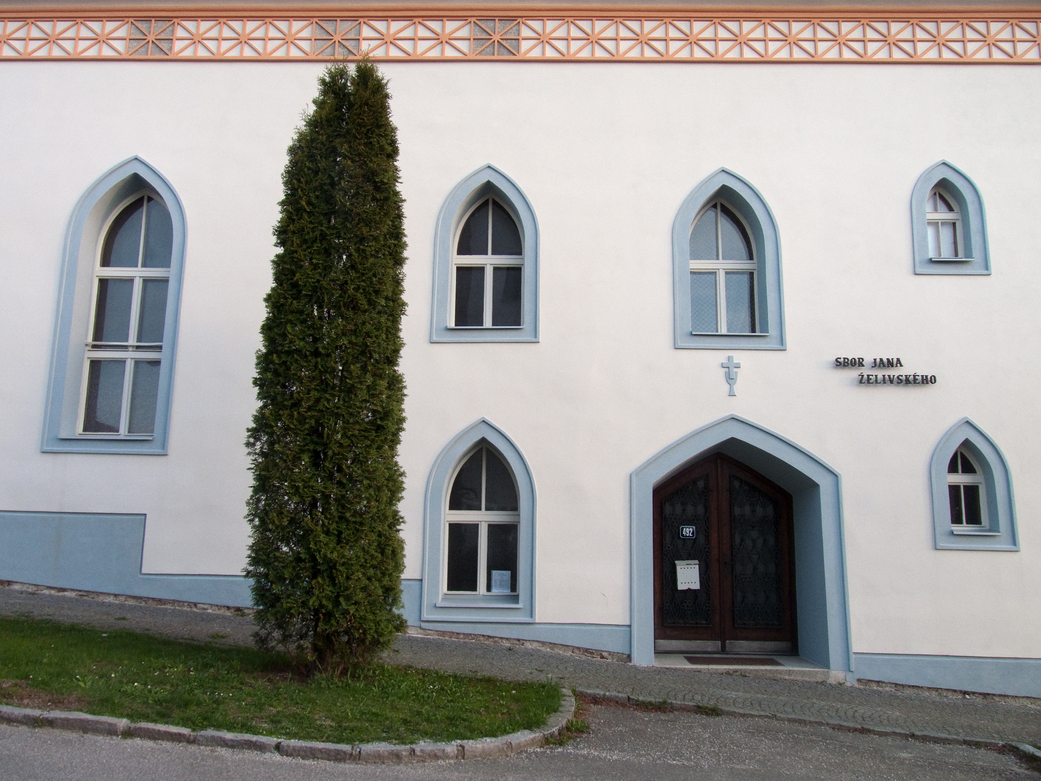 Front wall of the synagogue in Humpolec, Pelhřimov District, Czech Republic